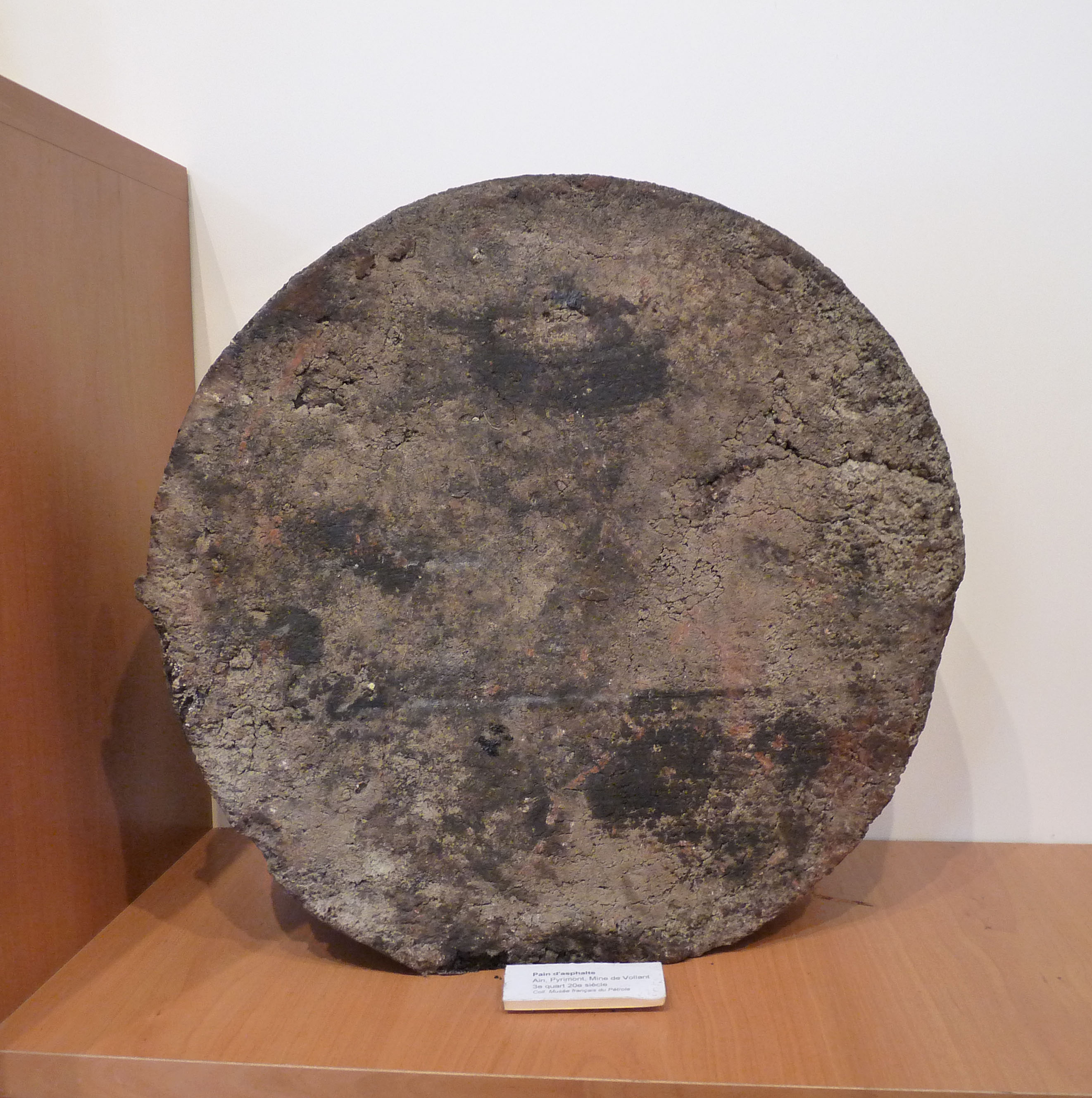 Slab of a limestone („Urgonian“, Lower Cretaceous) impregnated with rock asphalt from the Vollant mine in Pyrimont in the Upper Rhone Valley in between the southern Jura Mts. and the western Alps, Ain department, on display in the Musée français du pétrole in Merkwiller-Pechelbronn (Bas-Rhin department). The specimen was recovered between 1950 and 1970, during the final period of the mining operations.